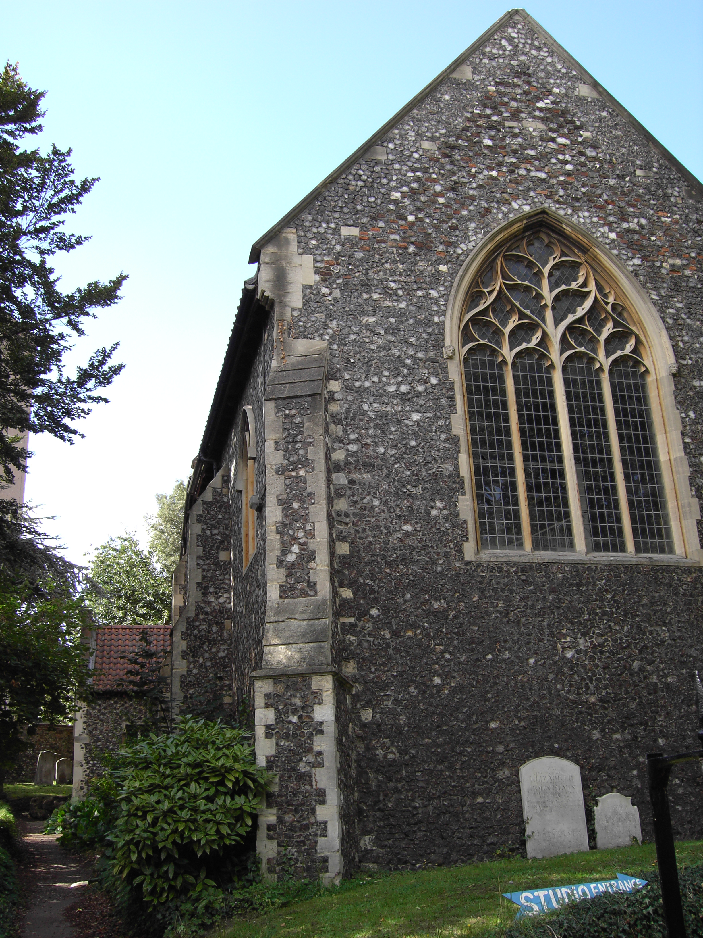 St Etheldreda, King Street, Norwich. Taken on the 2006 Sponsored Bike Ride for The Norfolk Churches Trust, 2006-09-09. View from gate up towards east window. Church used as an art workshop, sign in foreground pointing to the right reads 'studio entrance'.